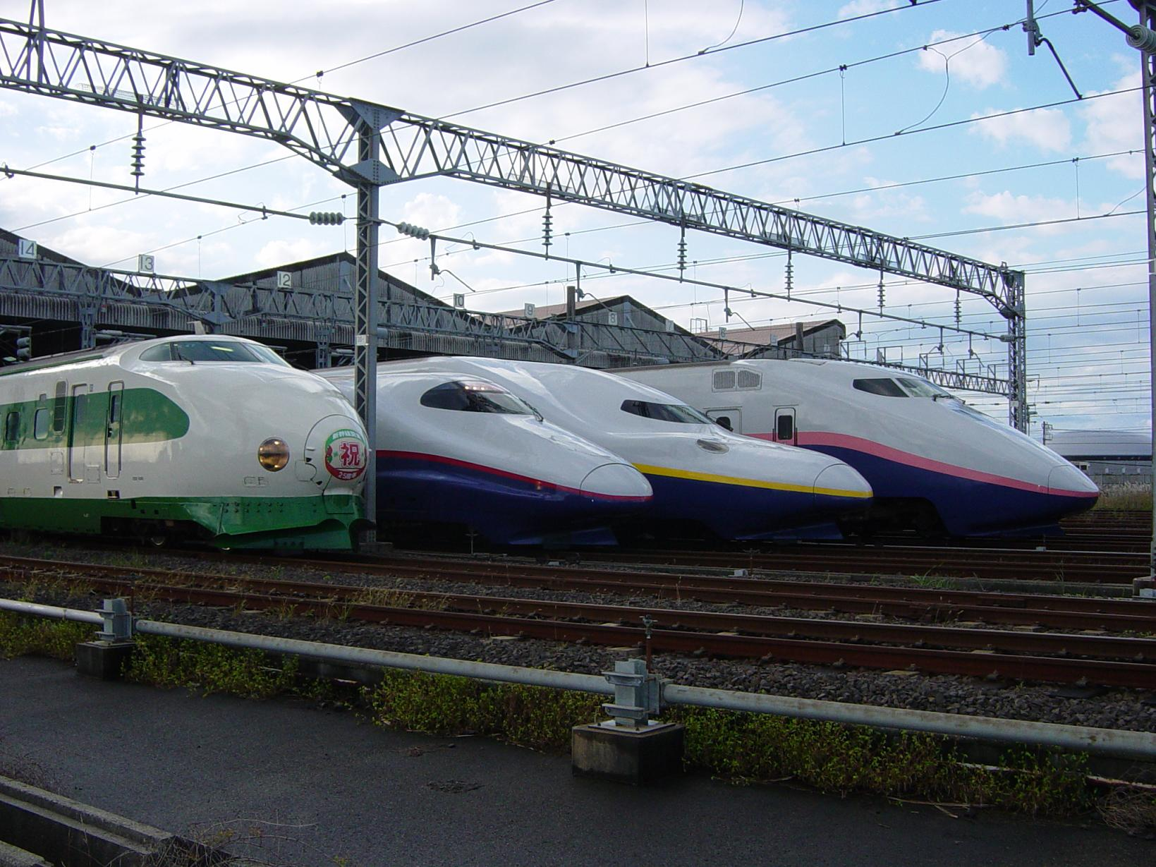 Niigata Shinkansen Rolling Stock Center